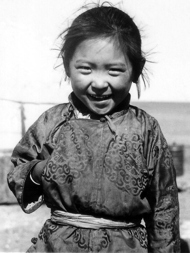 Mongolian little girl, traditional clothing (del), 1972.